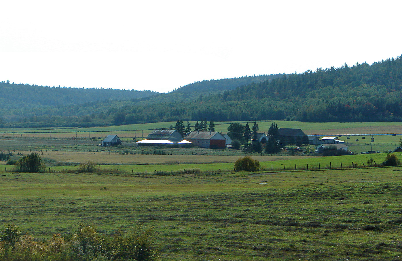 Countryside just outside of Lorrainville, Quebec